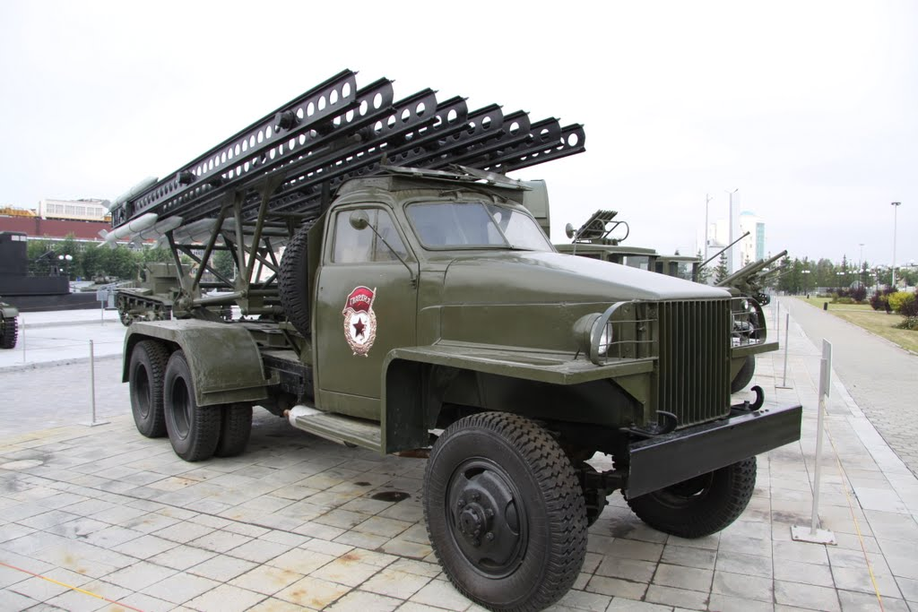 Verkhnyaya Pyshma Tank Museum 2011